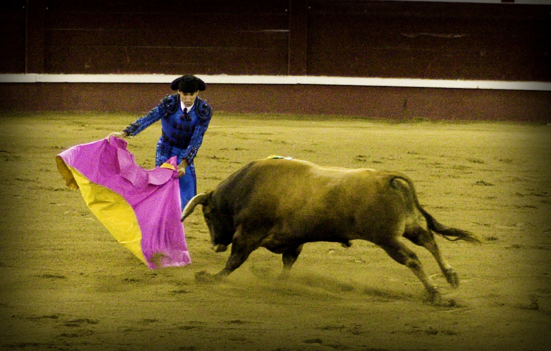 Bullfight on Terceira Island, Azores, Portugal .